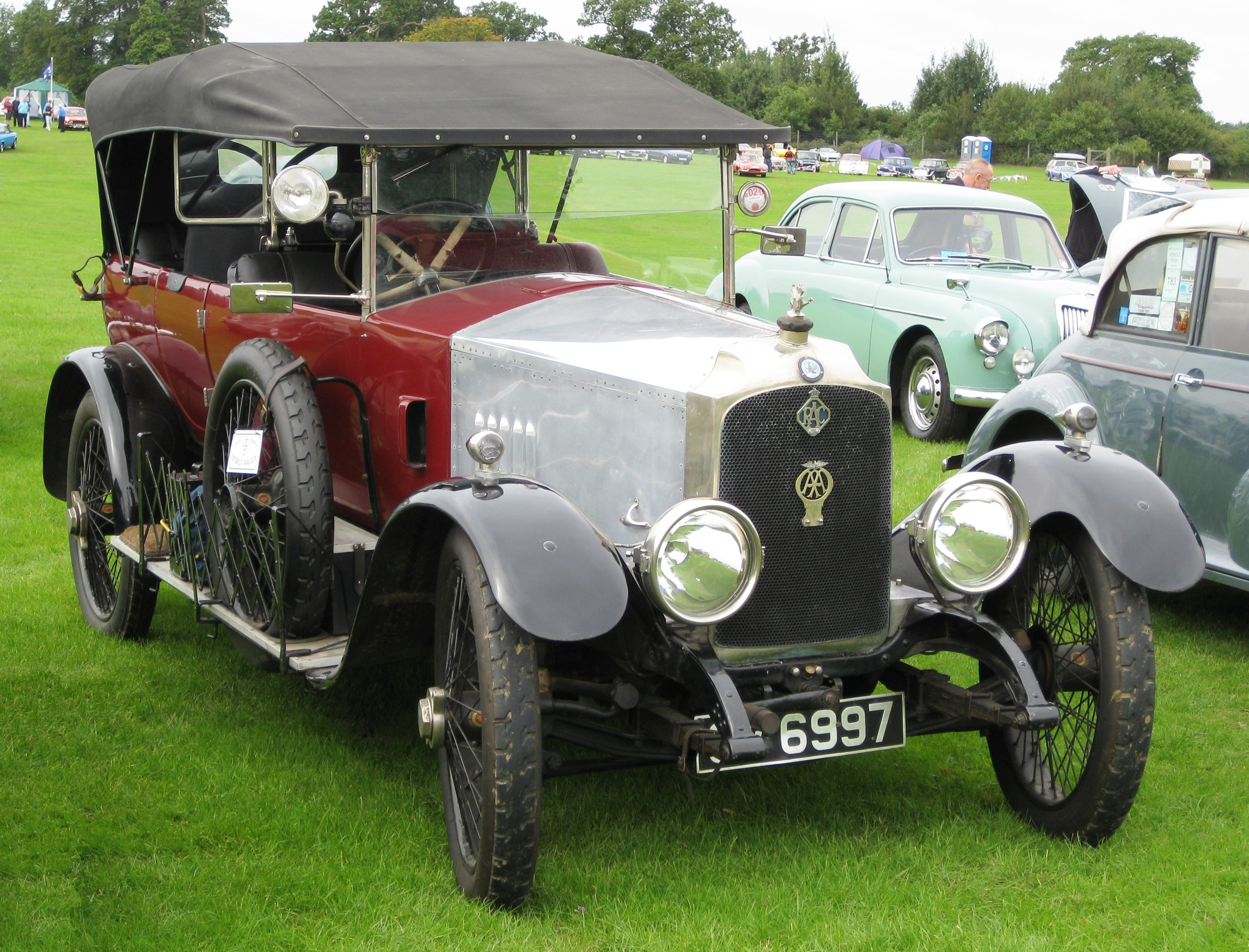 Vauxhall 25 (I think maybe also known then or subsequently as D-Type) at Knebworth Classic car show